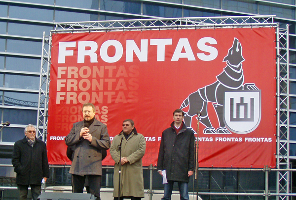 Leaders of Lithuanian Front Party